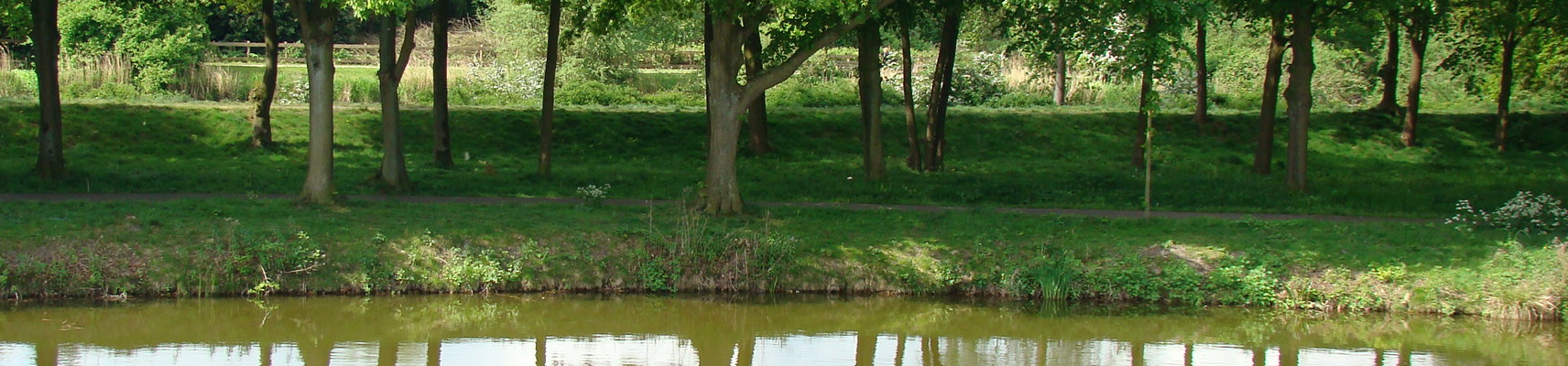 Covered path, before fortifications at Naarden, Netherlands